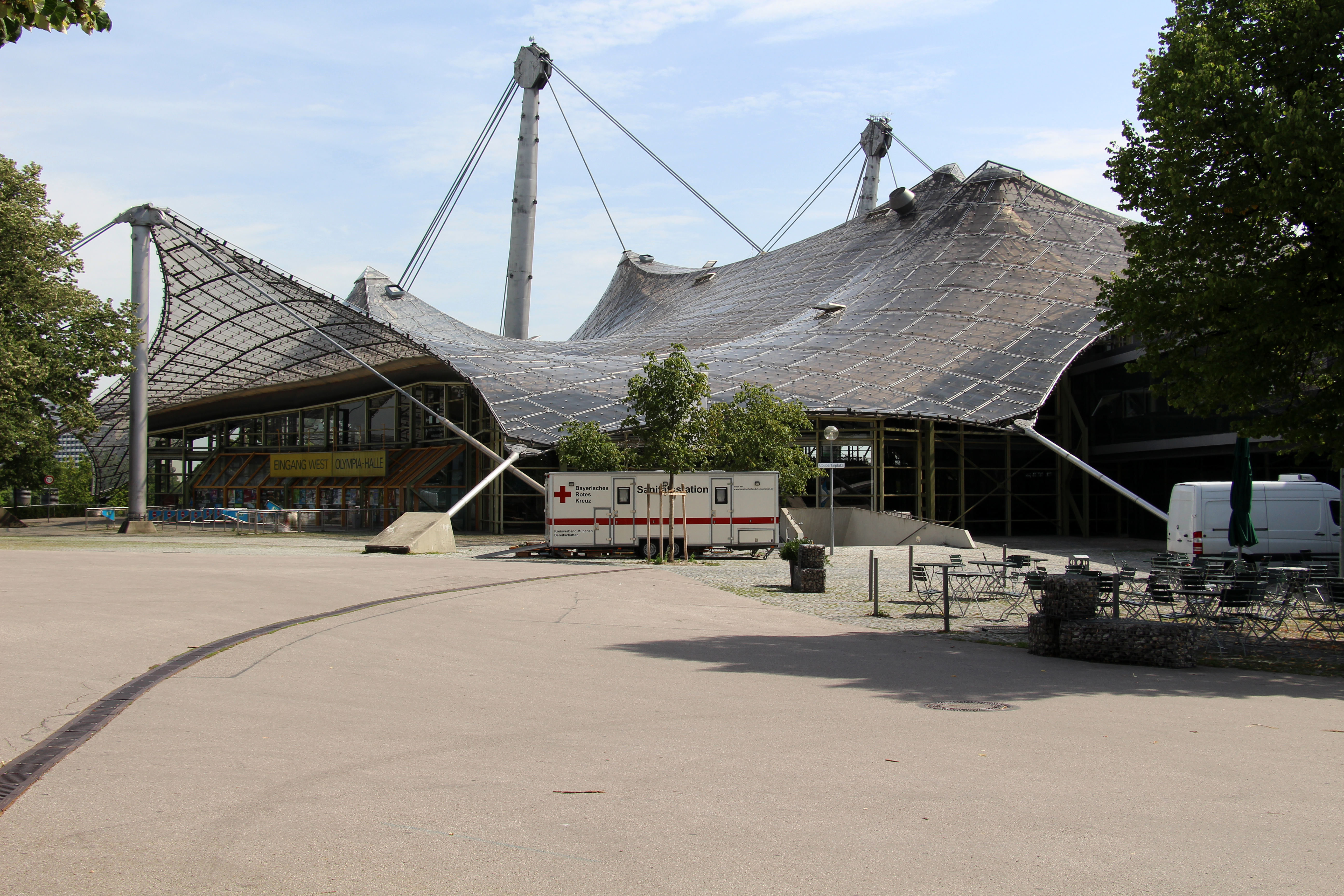 Spiridon-Louis-Ring Olympia Hall. Arch. Behnisch and Partners, with Frei Otto for the eye-catching tensile structure that covers much of the park 1968-72